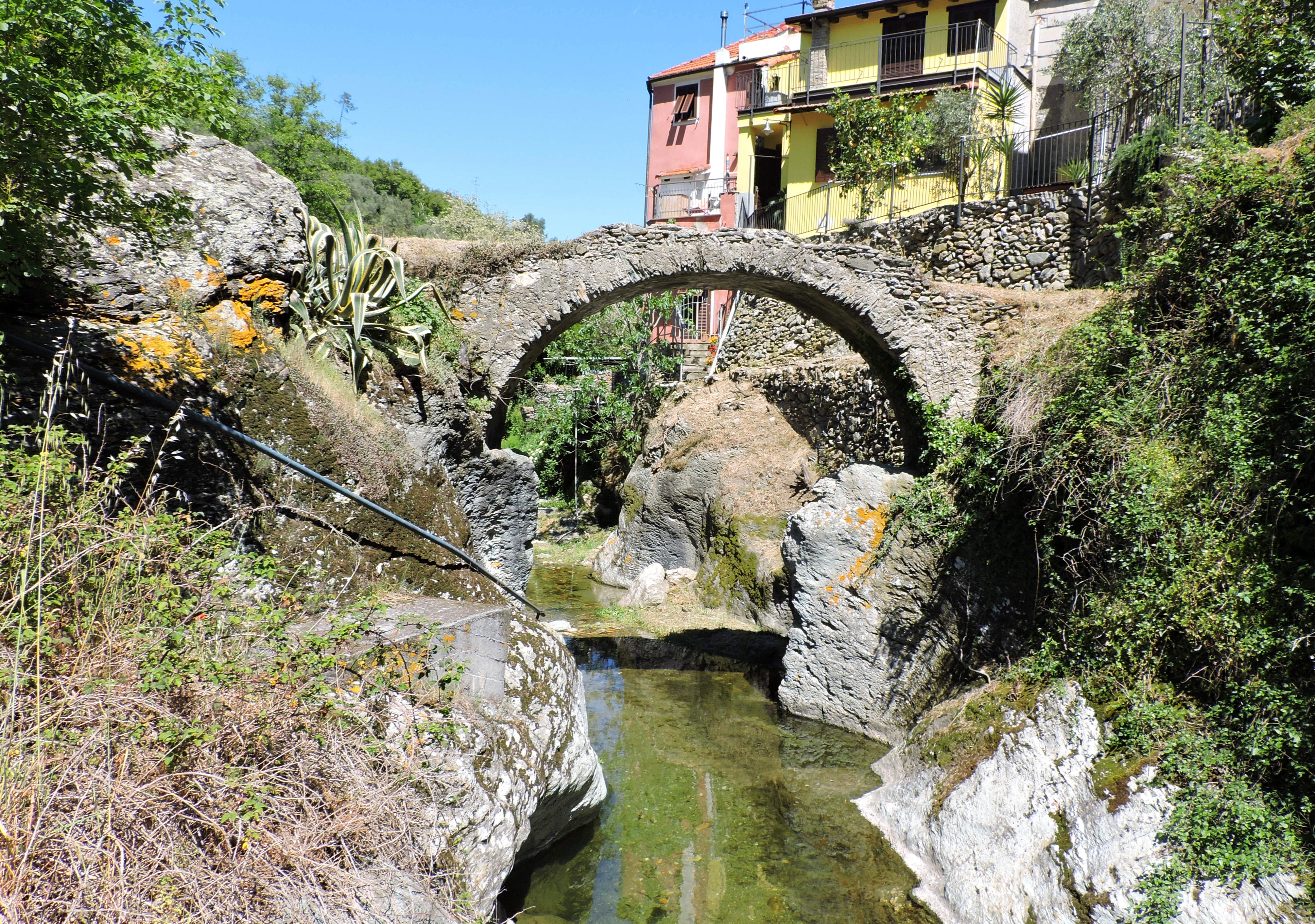 Torrente Segno (Liguria, Italy) in Ponte dell'Isola (Vado Ligure)